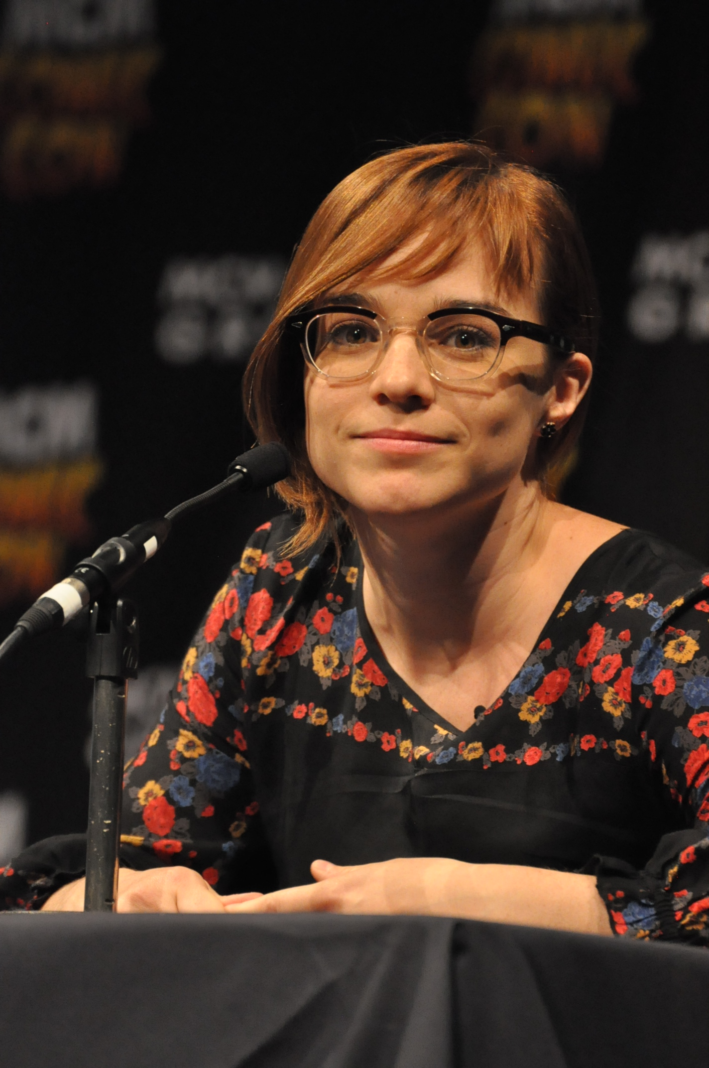 DSC_0696 MCM London Comic Con, NCIS Panel with Barrett Foa and Renée Felice Smith.